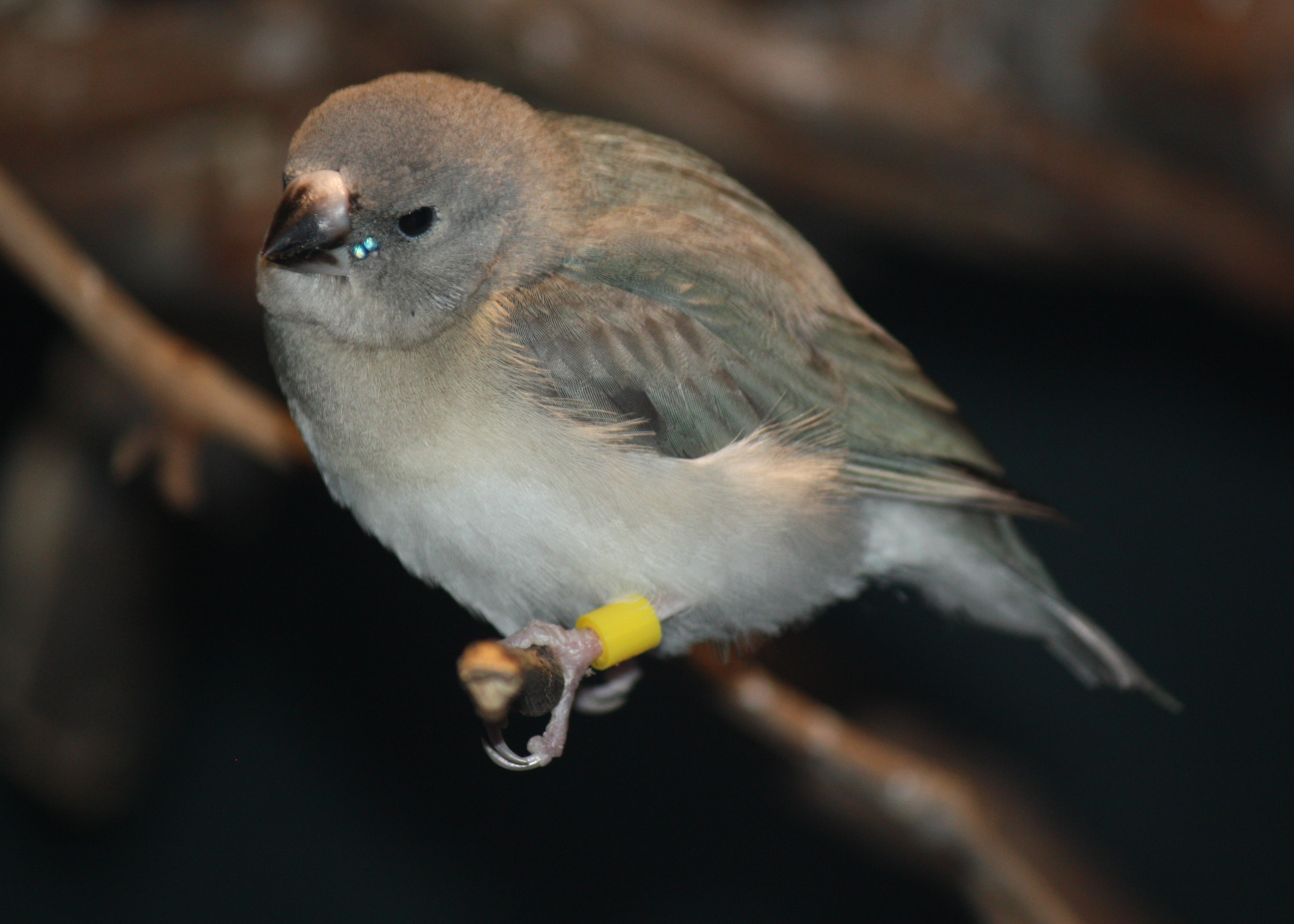 Gouldian Finch Juvenile Erythrura gouldiae at Cincinnati Zoo